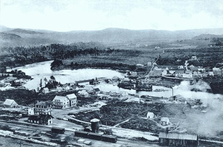 Print (photomechanical), Labelle, QC, about 1910, Ink on paper - Collotype, 9 x 13.8 cm